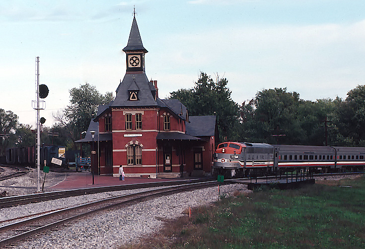 MARC commuter train out of Washington DC at Point of Rocks Maryland. October 1987. Scan from 35mm slide.